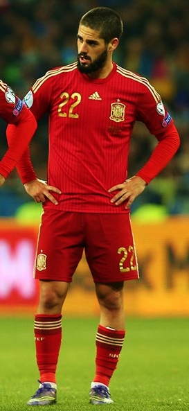 Isco 2015